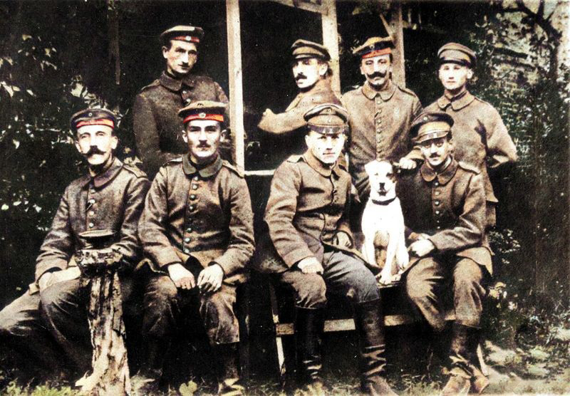 Colorized photo of Nazi leader Adolf Hitler as german soldier during WW1.